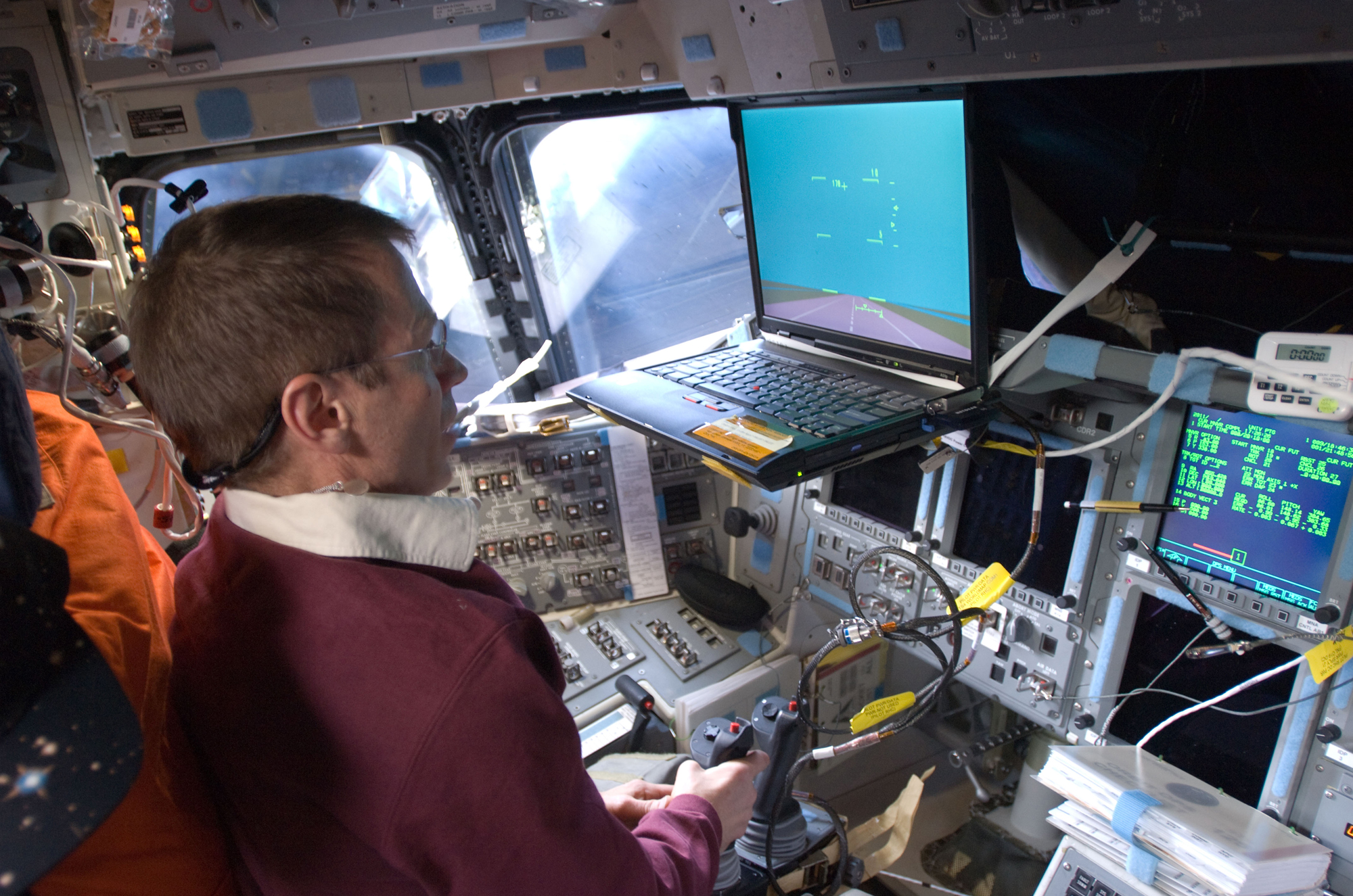 Occupying the commander's station, astronaut Gregory C. Johnson, STS-125 pilot, uses the Portable In-Flight Landing Operations Trainer (PILOT) on the flight deck of the Earth-orbiting Space Shuttle Atlantis. PILOT consists of a laptop computer and a joystick system, which helps to maintain a high level of proficiency for the end-of-mission approach and landing tasks required to bring the shuttle safely back to Earth.